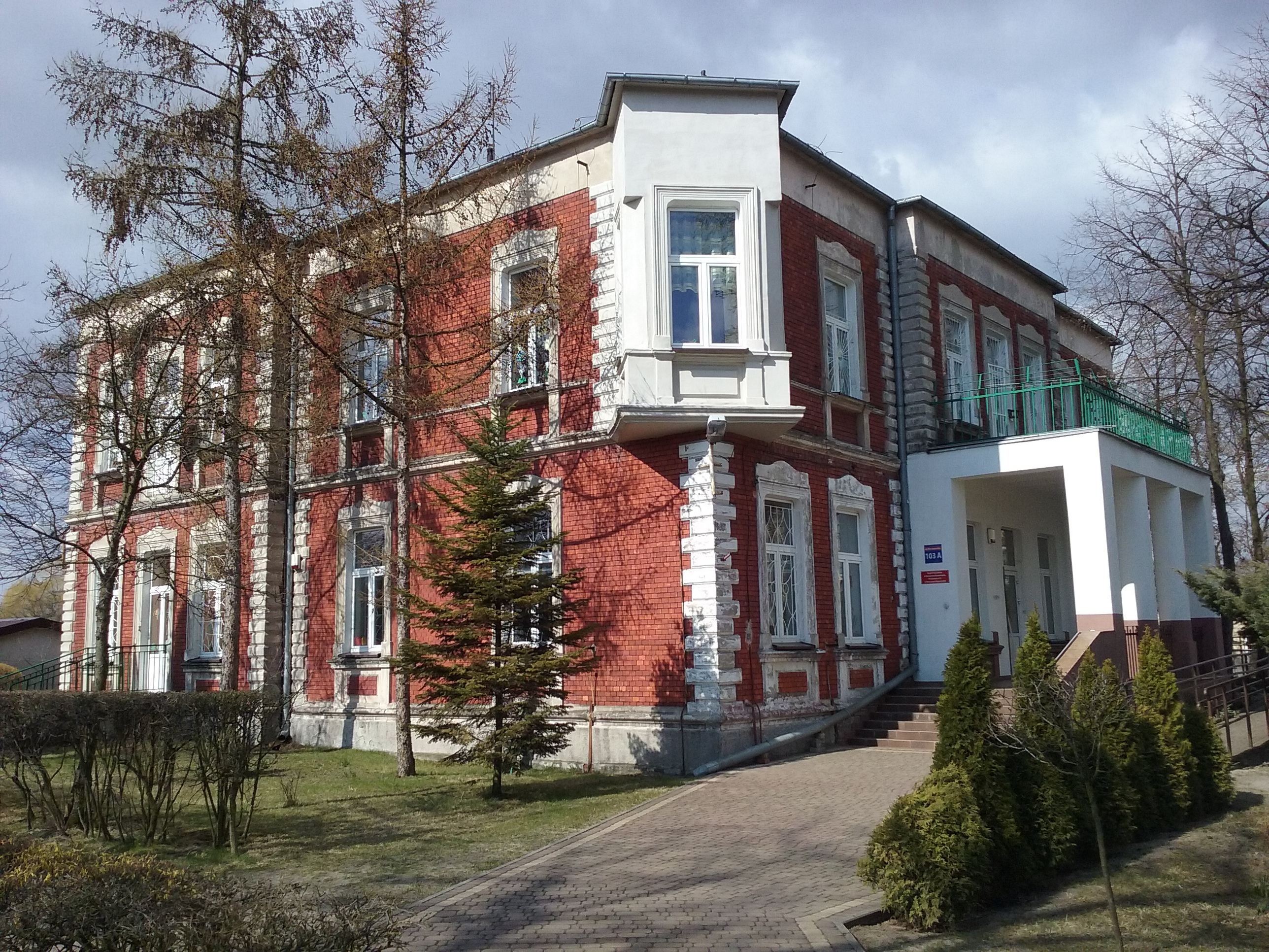 Warszawska 103 A, Tomaszów Mazowiecki, kindergarten